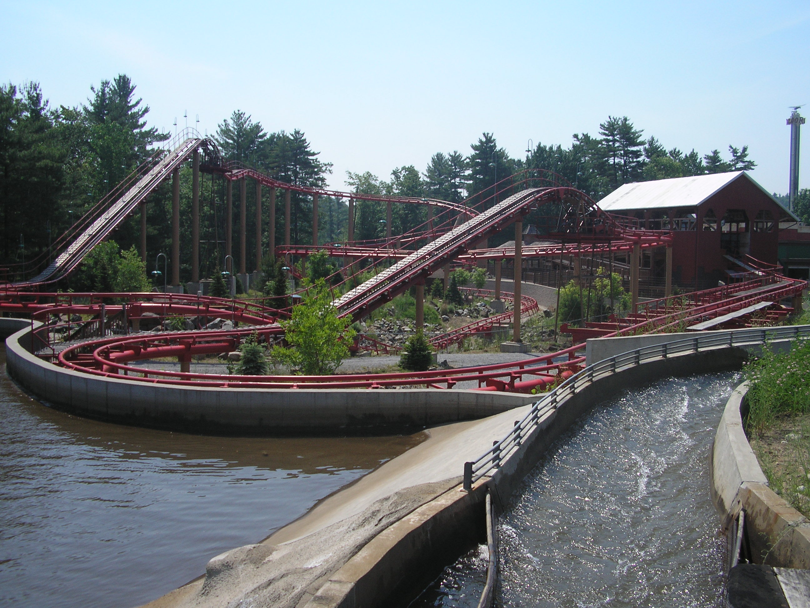 Picture taken by myself on 061806